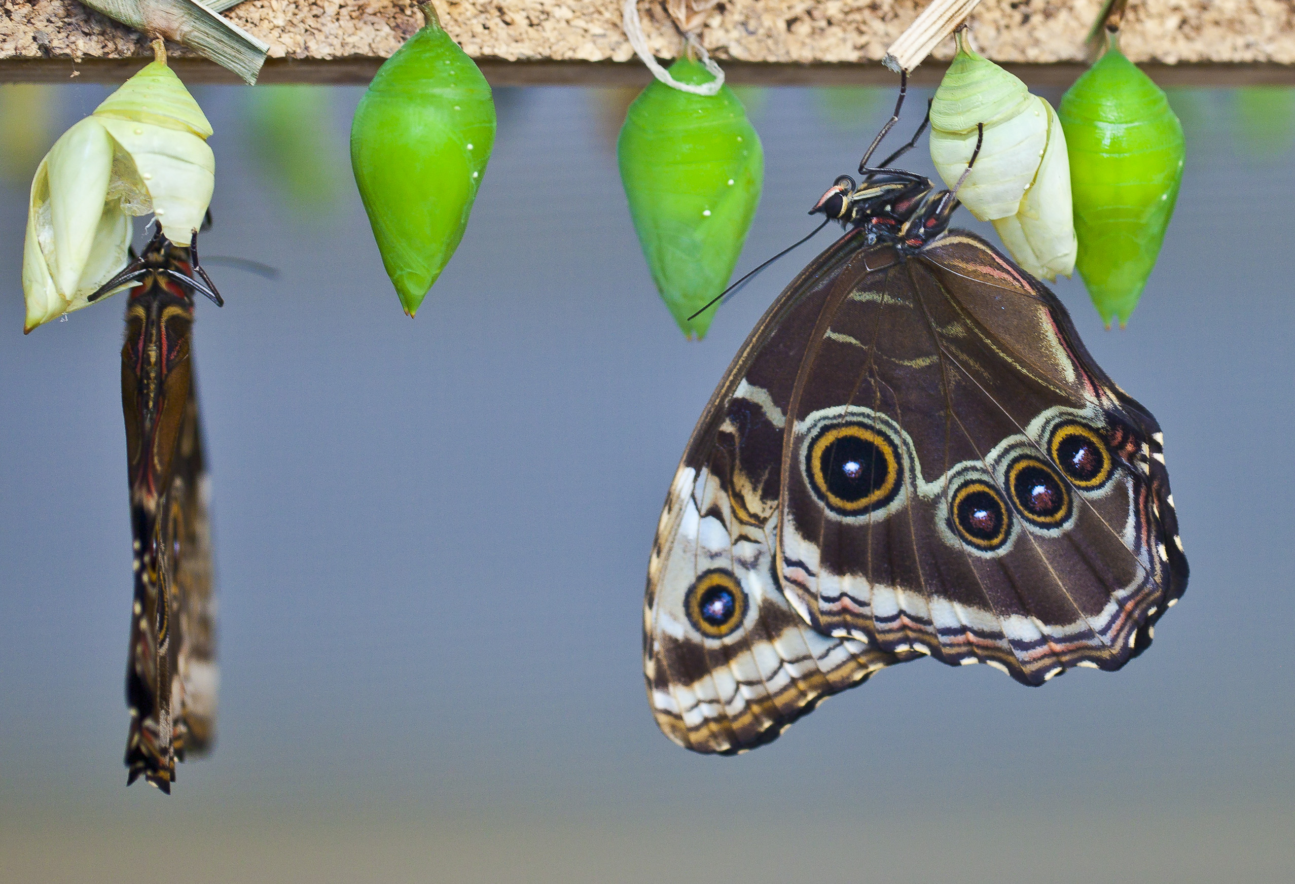 Peleides Blue Morpho (Morpho peleides), Butterfly zoo of Icod de los Vinos, Tenerife, Spain